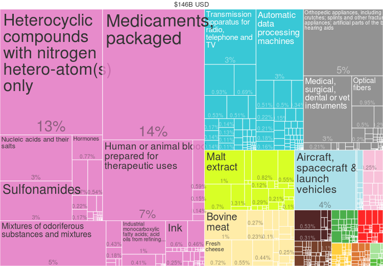 2014 Ireland Products Export Treemap